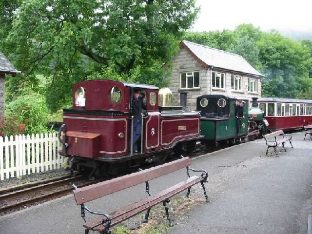 Single fairlie Taliesin with ex-Penhryn Quarries Blanche at Tan-y-Bwlch station on the Ffestiniog Railway.